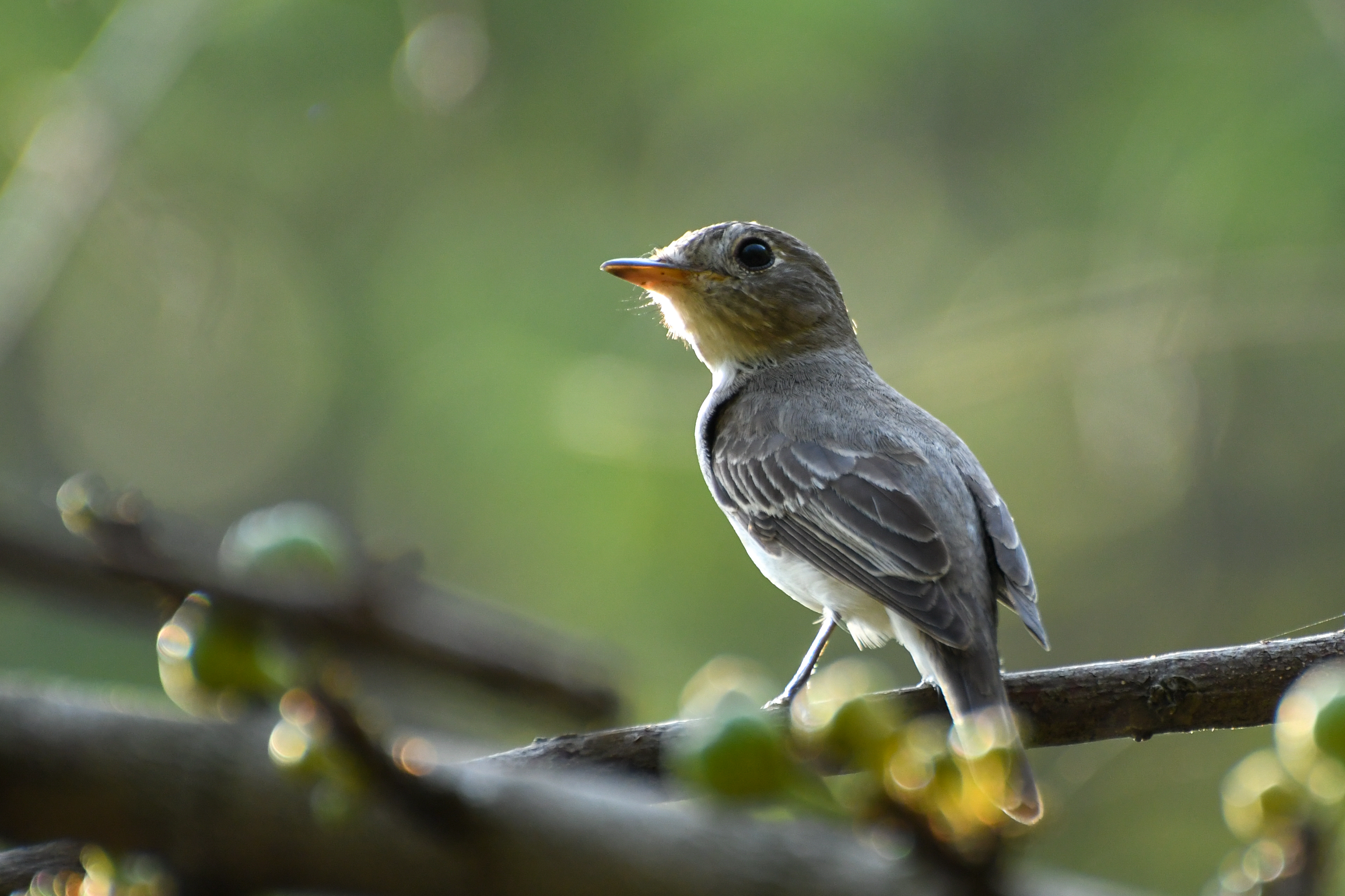 Asian brown Flycatcher